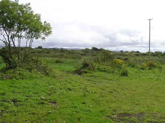 Ballinlea Upper Some rugged ground here.